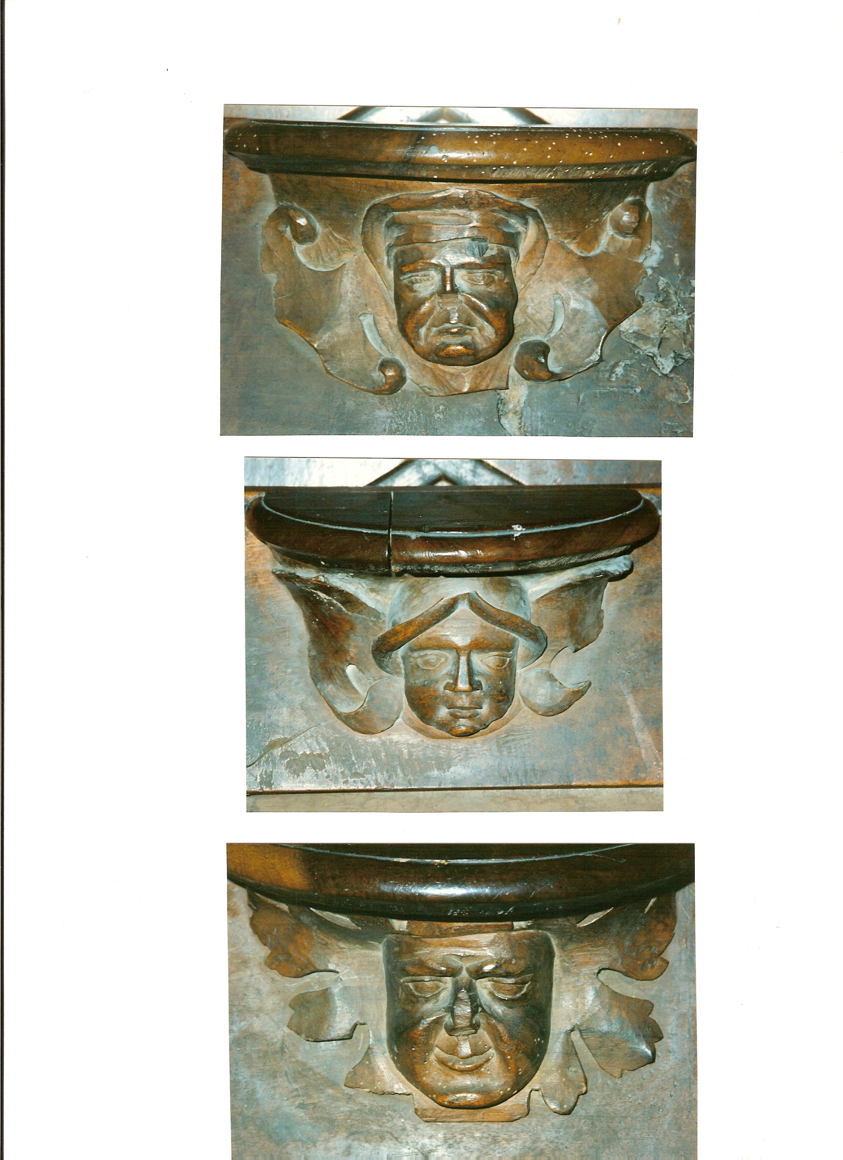 Miséricord from cathedral of Mende